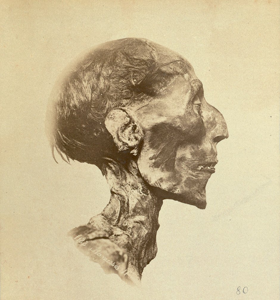 Head view of Ramses II mummy. Albumen print. Circa 23 x 15 cm